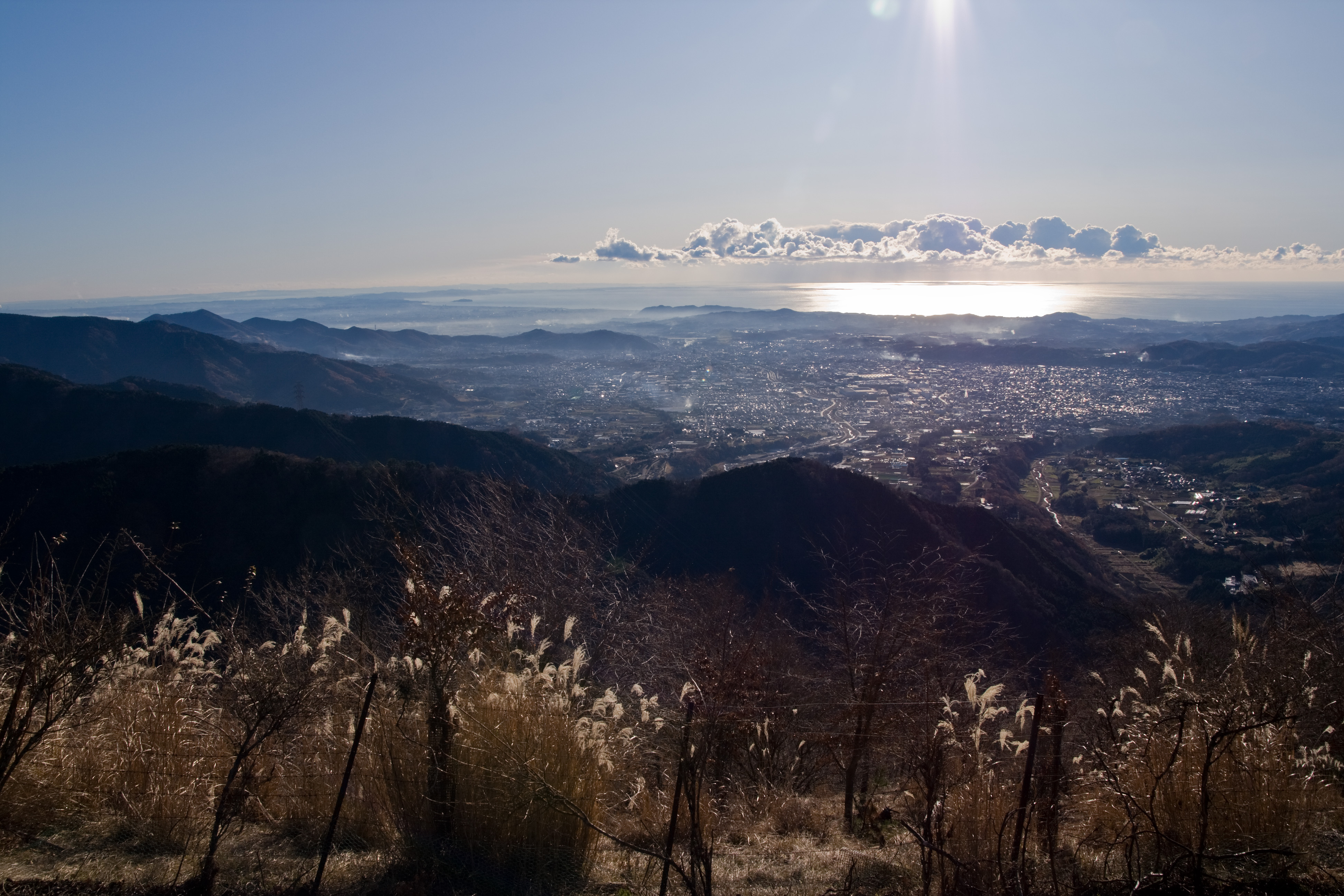 Hadano-Basin (秦野盆地 Hadano-bonchi) as seen from Mt.Kunugi, Kanagawa Pref., Japan.